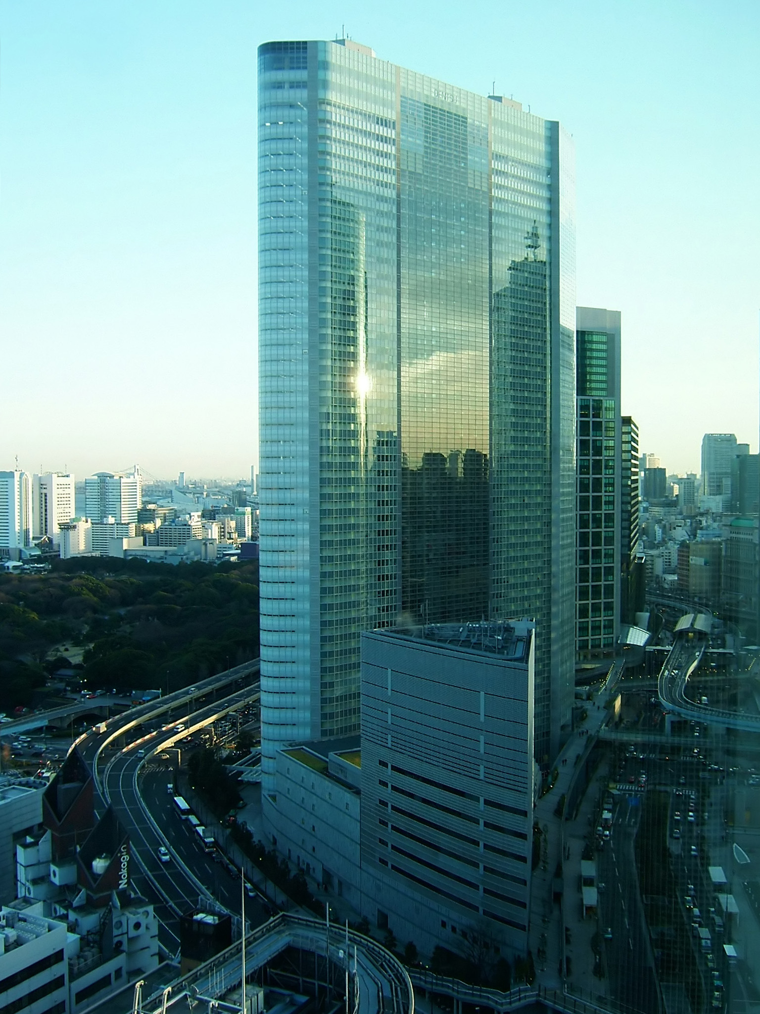 "Dentsu Building" Designed by Jean Nouvel. Shiodome Tokyo, Japan. 夕日を浴びた電通ビルです。 1536*2048(Noise reduction)